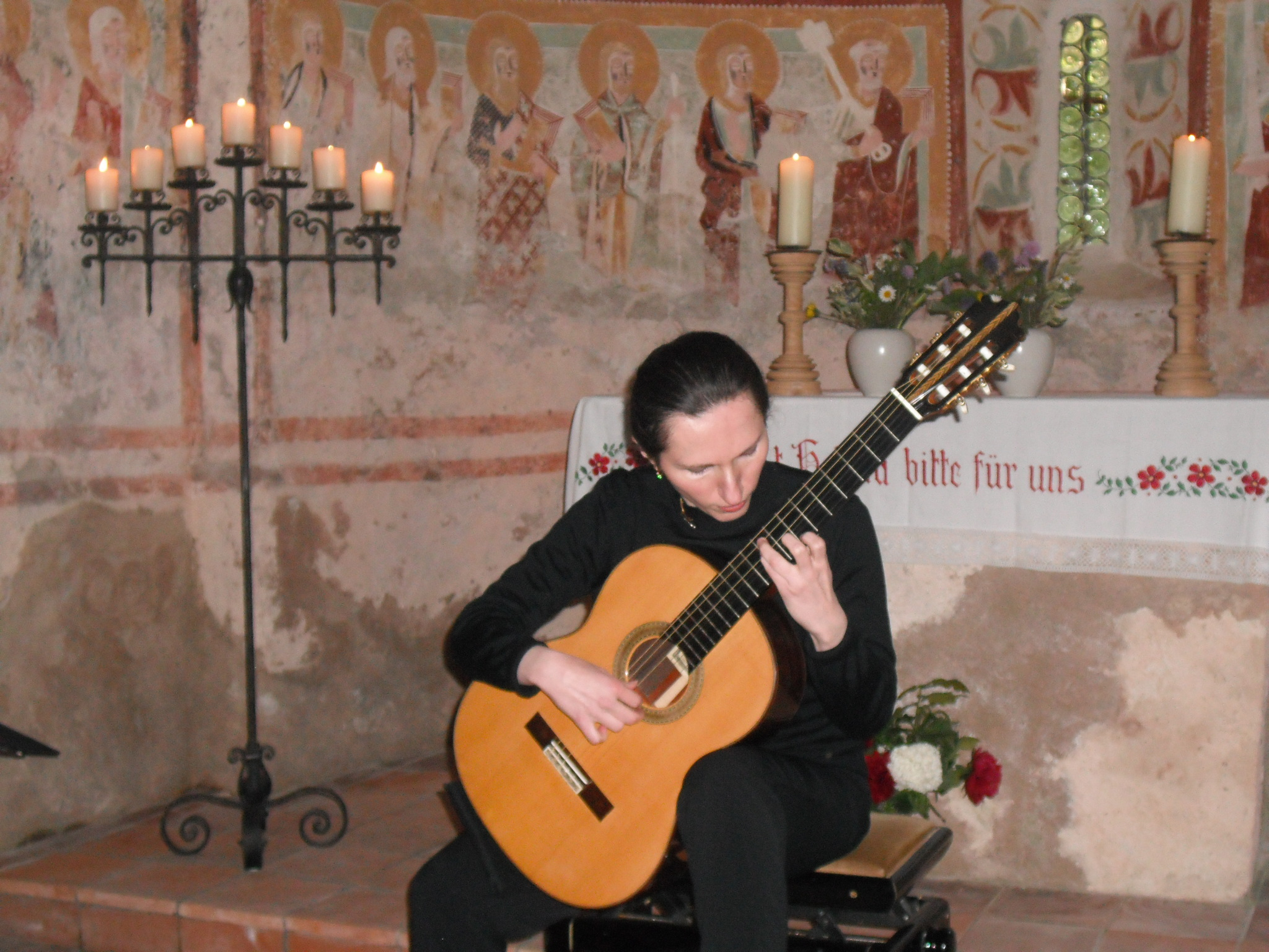 The Austrian Guitarist Johanna Beisteiner during a solo concert on 17-05-2012 at St. Helena's Church in Dellach (Hermagor, Carinthia, Austria).